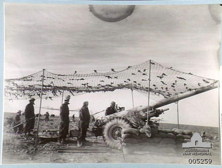 Near Bardia - One of the guns and crew of the 28th Medium Regiment. 234 Battery, Royal Artillery (D Troop) - A British unit which assisted the Australian Artillery in the Battle of Bardia. Comment : Gun appears to be a BL 4.5 inch medium field gun, on 60-pounder gun mounting. See also File:4.5 inch gun Bardia Dec 1940 AWM 005258.jpeg.